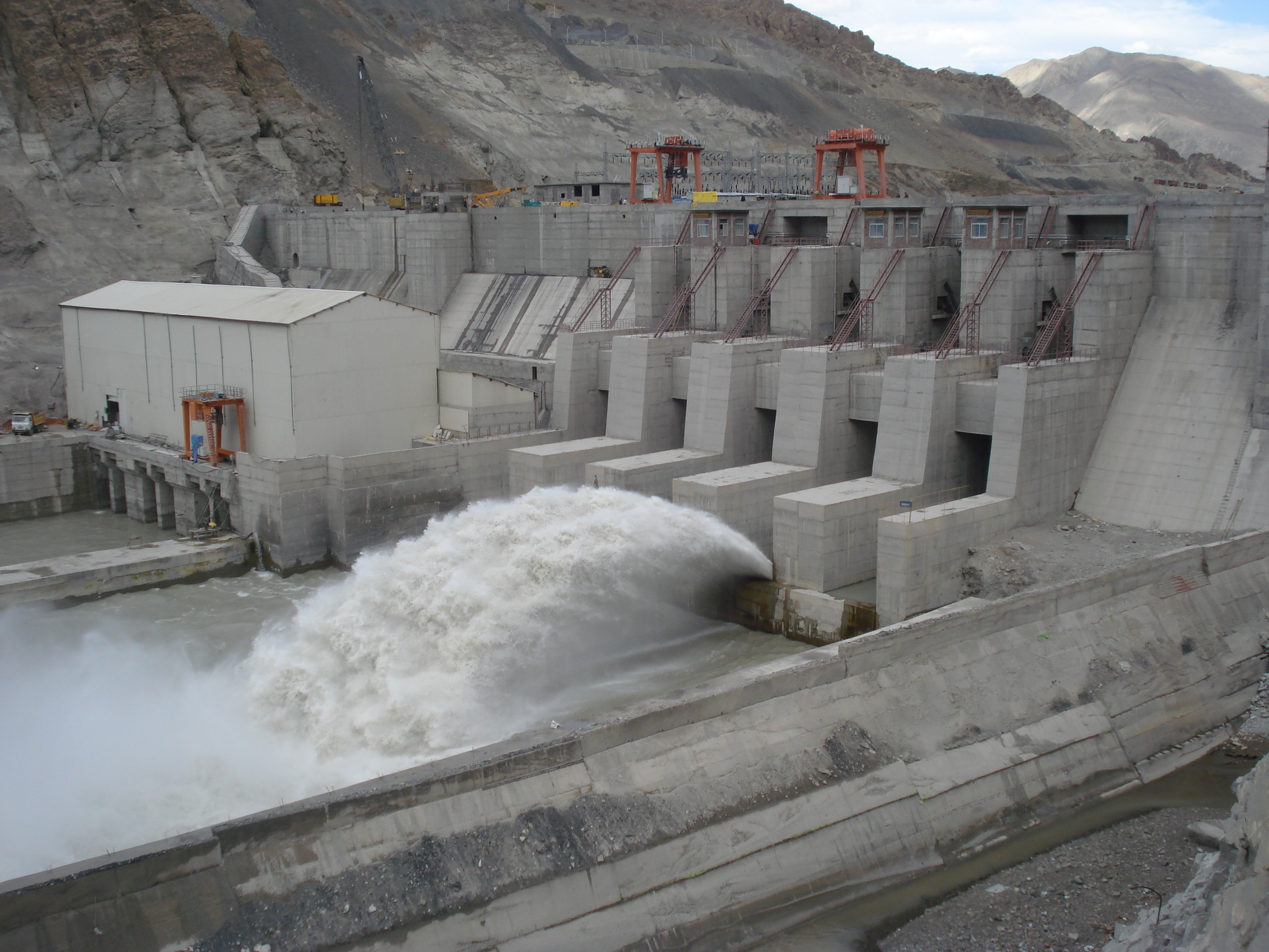 Nimmo Bazgo Dam